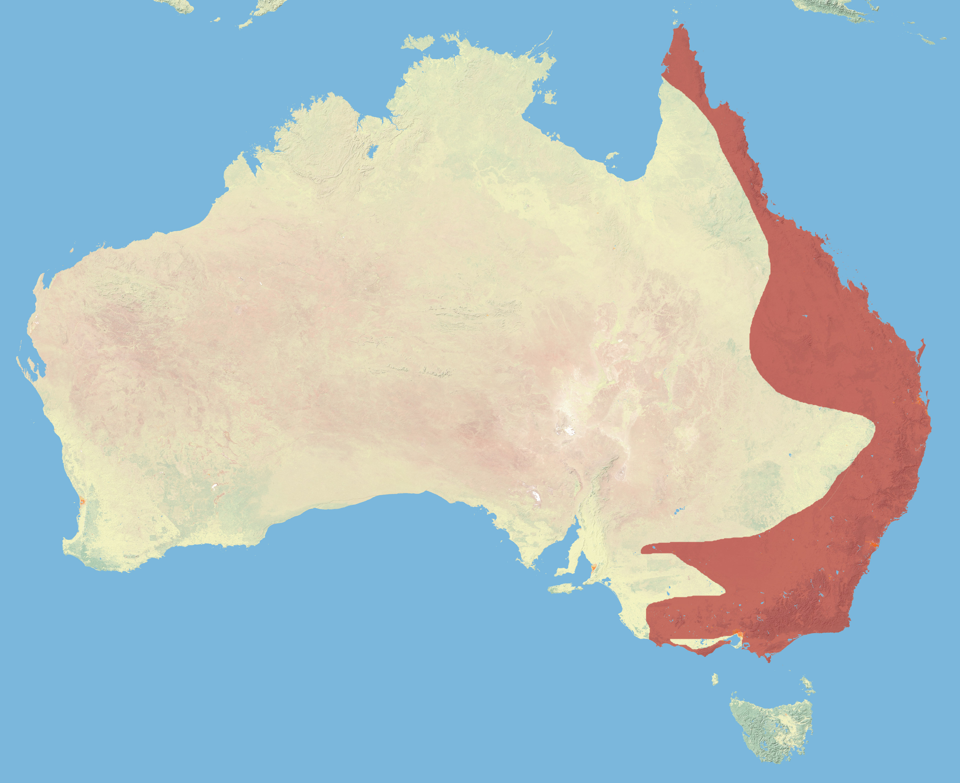 The Distribution of the Feathertail Glider According to the IUCN